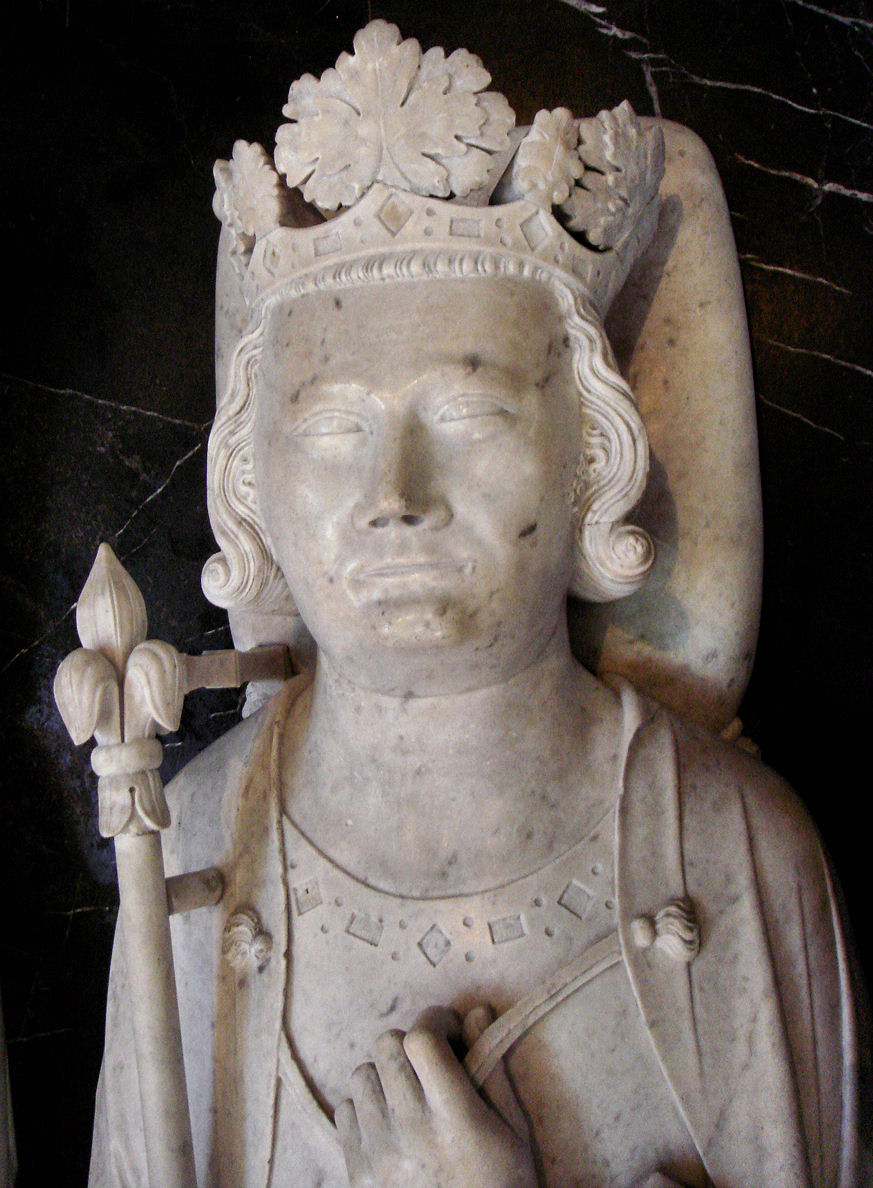 Bust_of_Philippe_le_Bel_SaintDenis